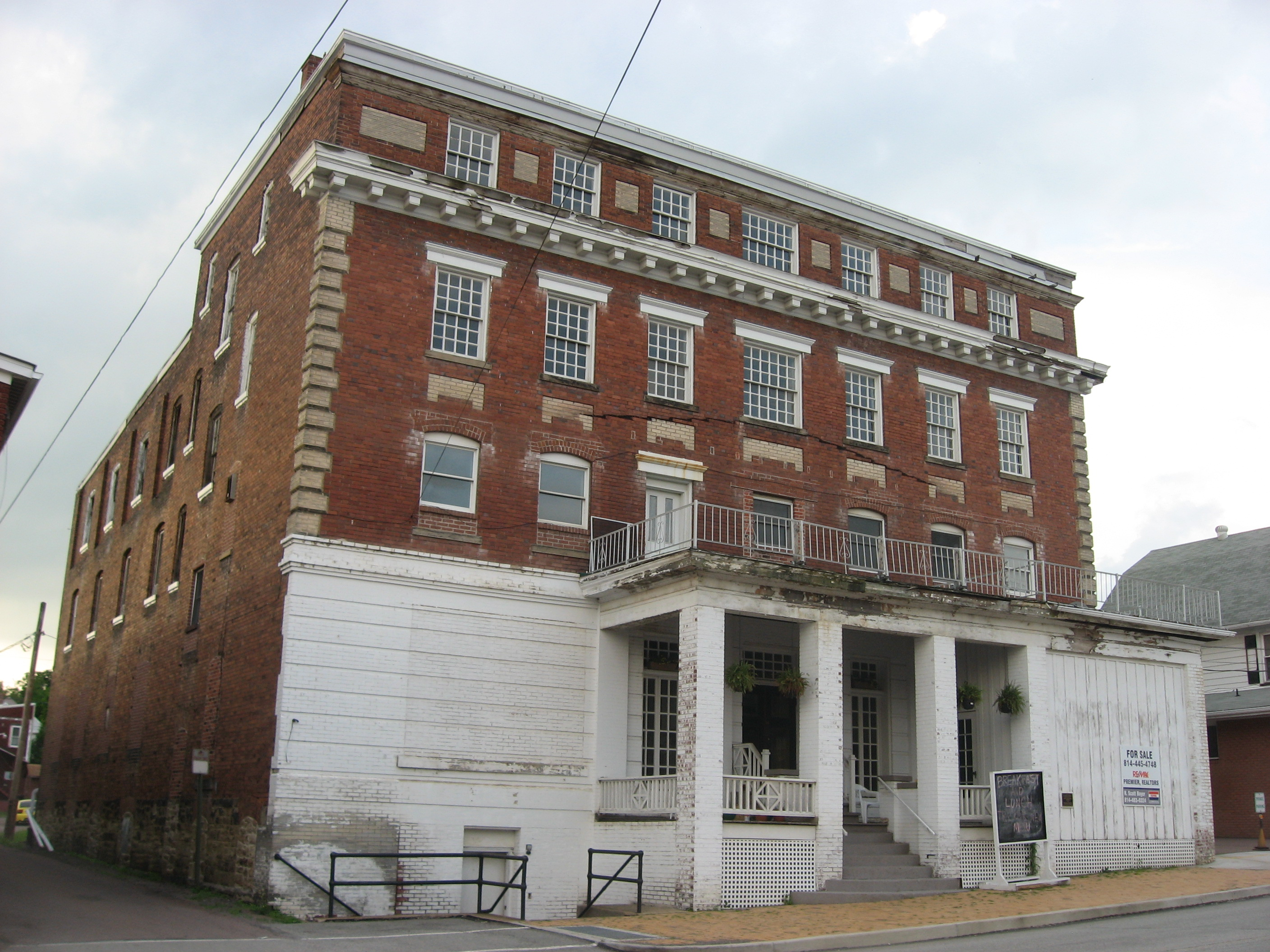 Front and western side of the New Colonial Hotel, located at 319 Main Street in downtown Meyersdale, Pennsylvania, United States. Built in 1948, it is listed on the National Register of Historic Places.